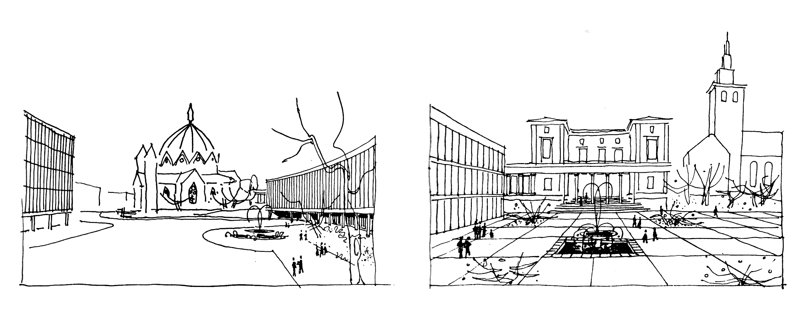 Sketches by Erling Viksjø in his presentation of the government office tower, illustrating his intention of using a wing of the "Y-building" to separate two older buildings that he found to be unharmonious together.UnknownUnknown skisser av erling viksjø i hans artikkel om regjeringsbygningen i byggekunst 1-1959. de viser hvordan han ville bruke nordfløyen av y-blokken til å skille to bygninger som han mente harmonerte dårlig med hverandre, trefoldighetskirken og deichmanske bibliotek.